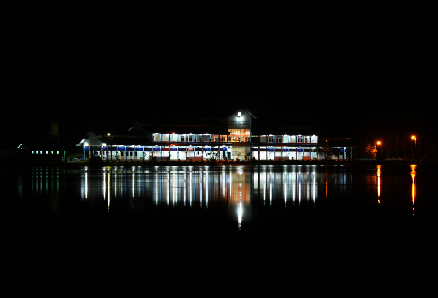 Batticaloa bus stand, near Batticaloa Lagon